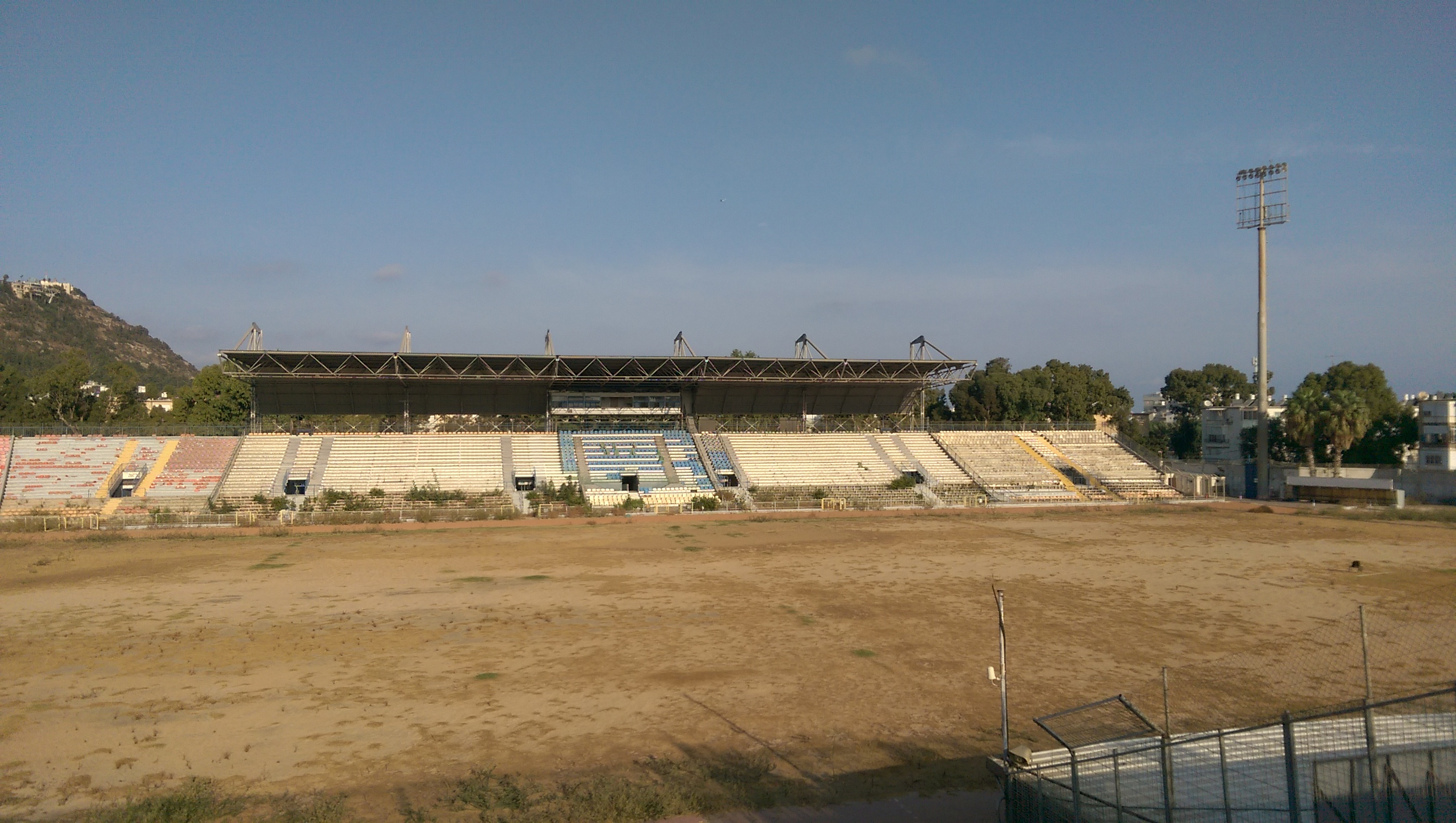 Kiryat Eliezer stadium, October 2015